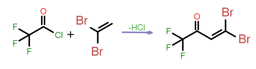 4,4-Dibromo-1,1,1-trifluoro-but-3-en-2-one synthesis from 2,2,2-trifluoro-acetyl chloride and 1,1-dibromo-ethene